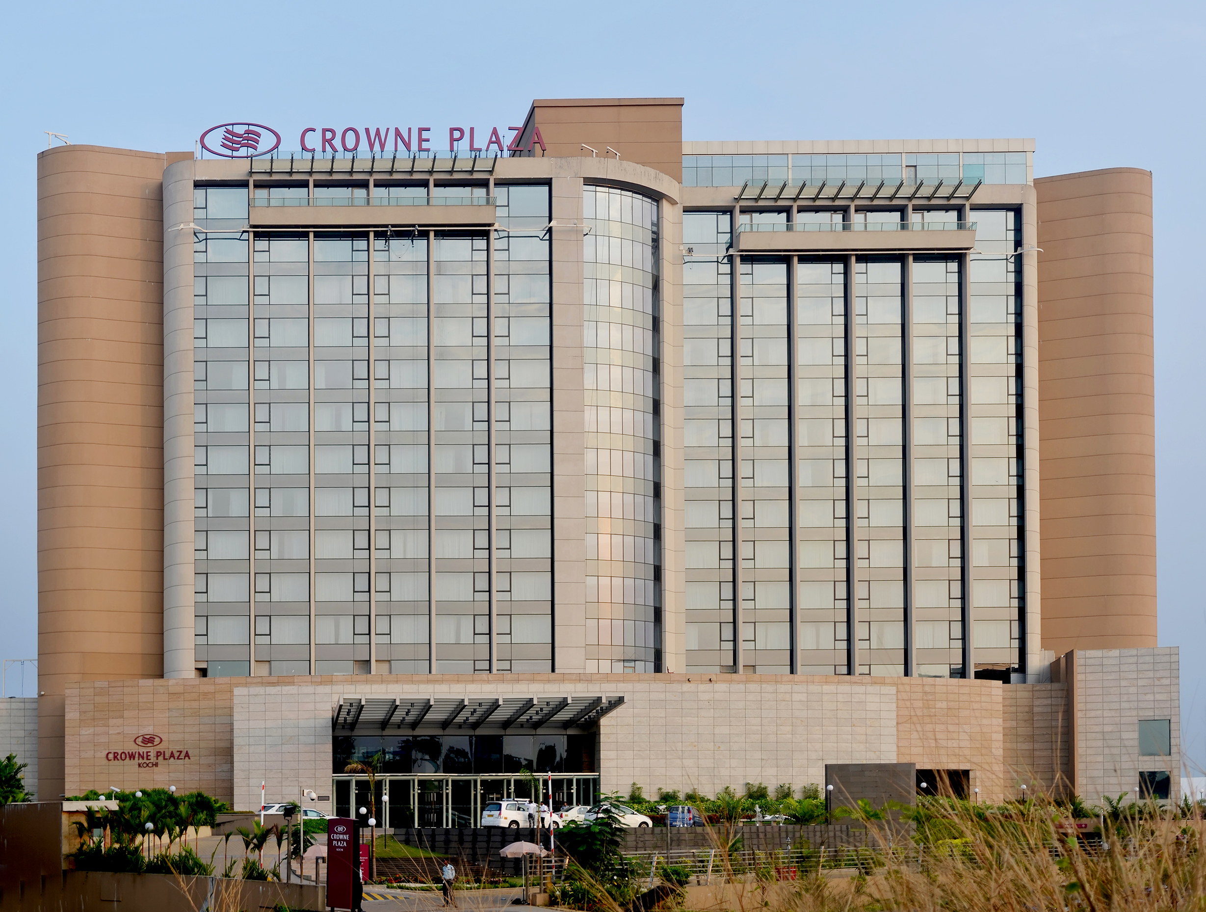 Crown Plaza, Kochi